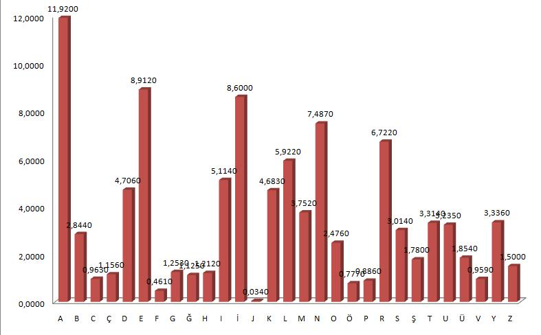 Turkish Letter Frequencies